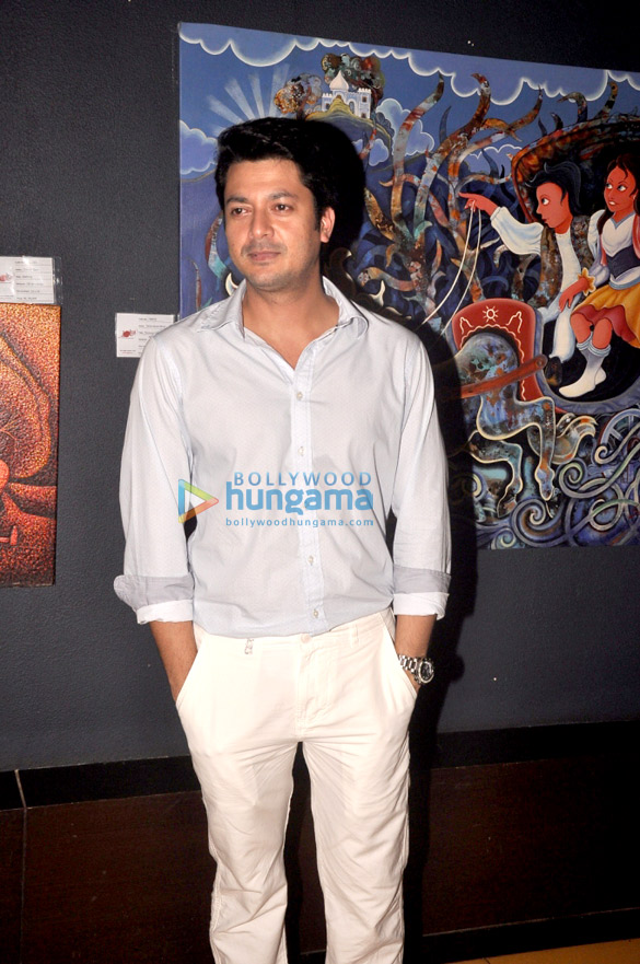 Jisshu Sengupta at the special screening of Buno Haansh.